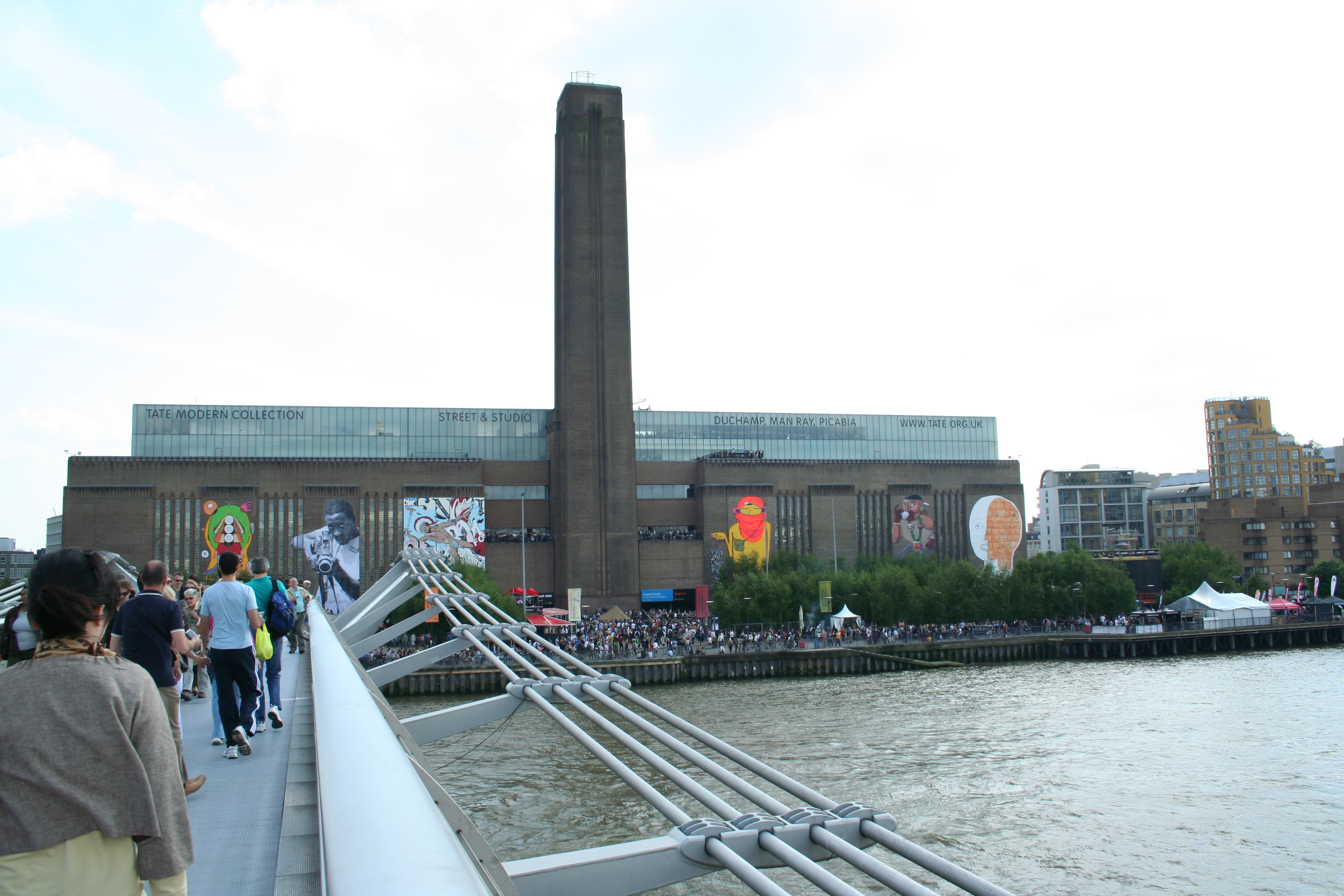 Tate Modern´s Exhibition "Street Art", London